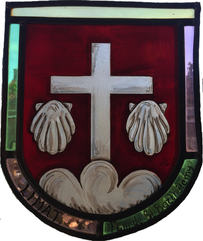 Coat of arms Limat de St-Barth.